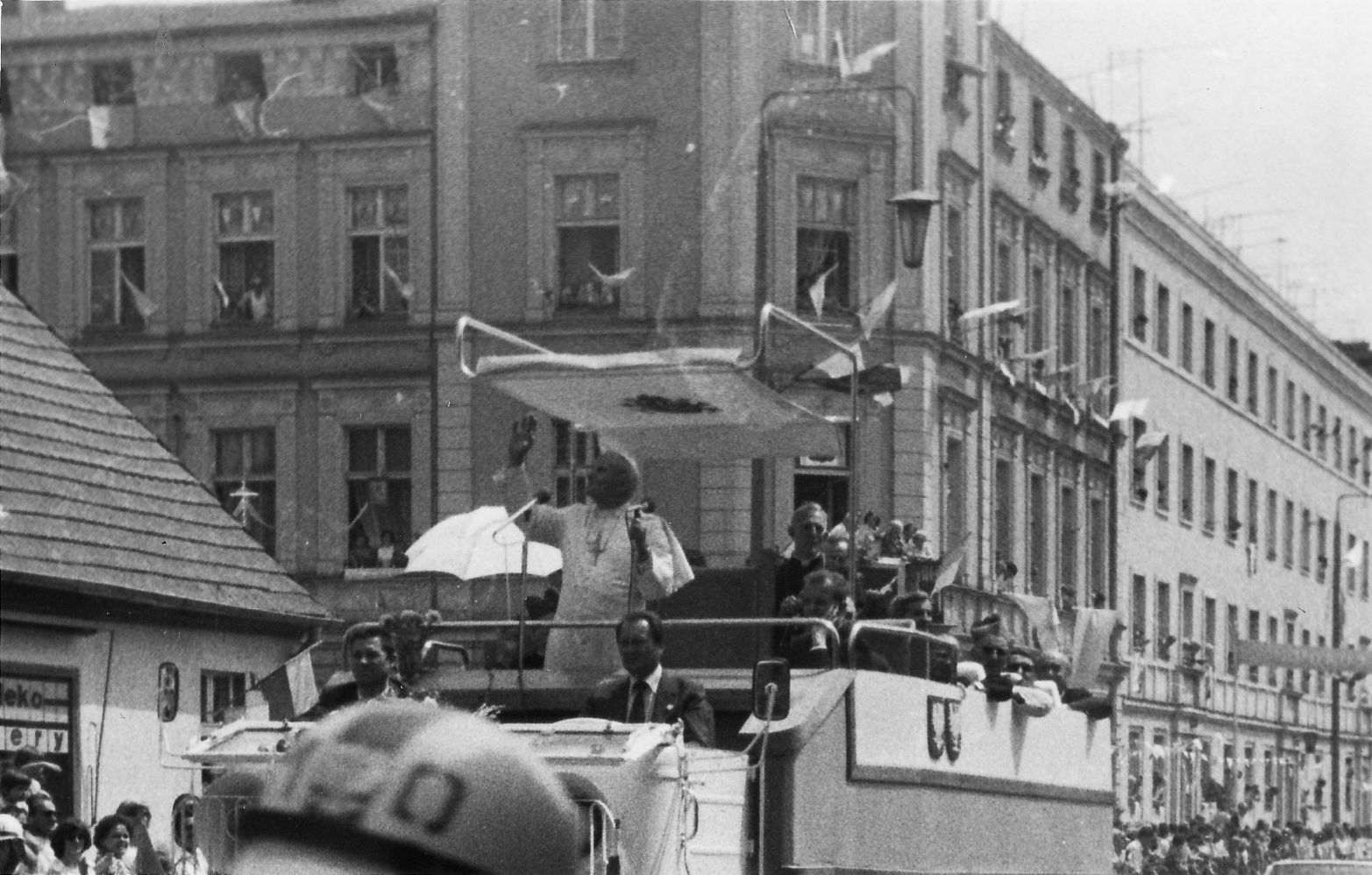 Ioannes Paulus II during his pilgrim to Poland in 1979. Photo taken in Gniezno, B. Chrobrego street.